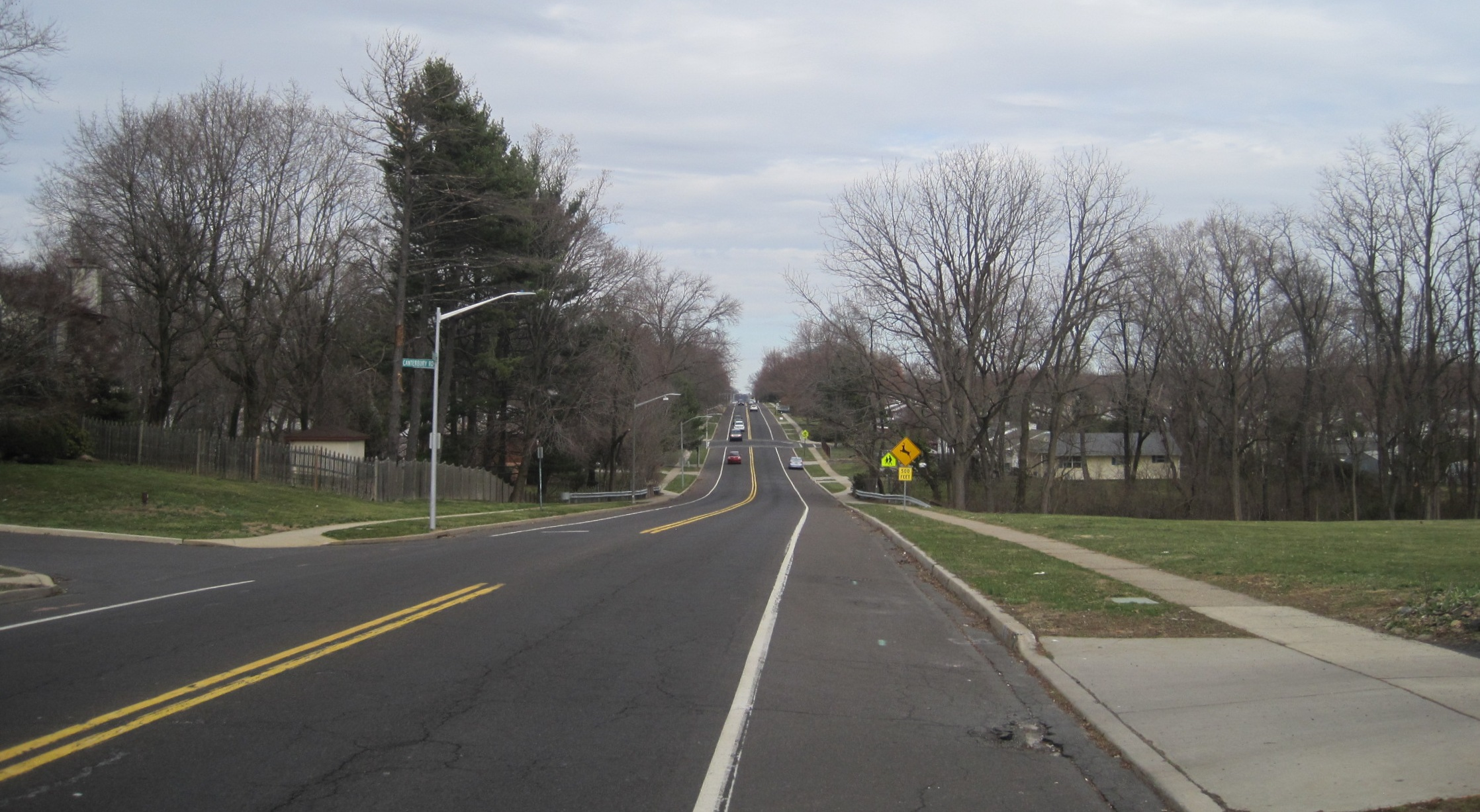 Photo of Fairless Hills, Pennsylvania, a census-designated place within Falls Township, Bucks County. Photo taken on eastbound Trenton Road at the intersection of Canterbury Road.